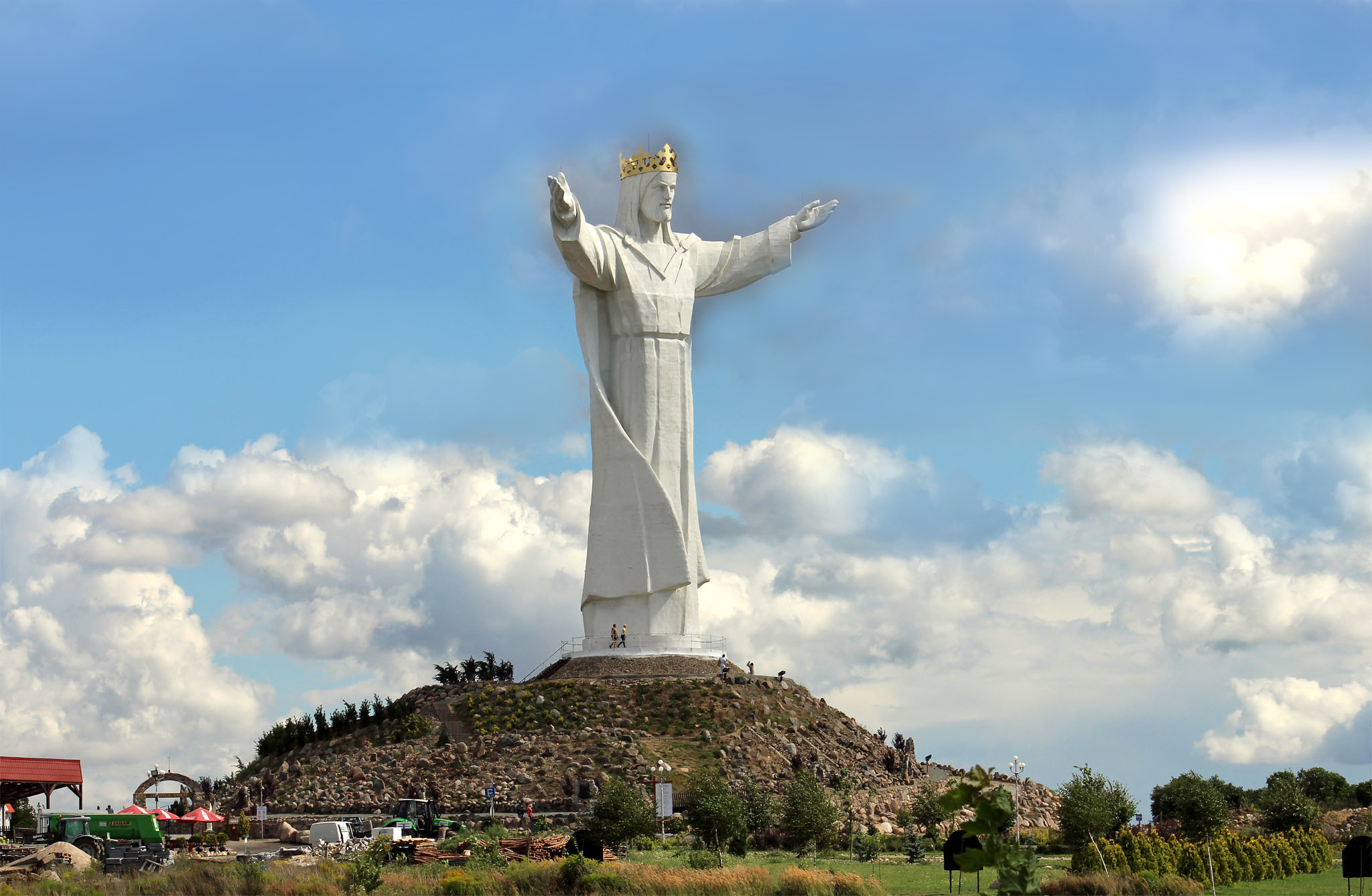 Wer dieses Bild benutzen möchte, der möge bitte den Link auf seiner Seite einbinden. If you want to use this picture, please implement the link on the website containing the picture.